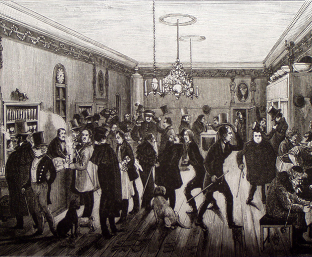 Operakällaren in Stockholm a night in the 1840s.